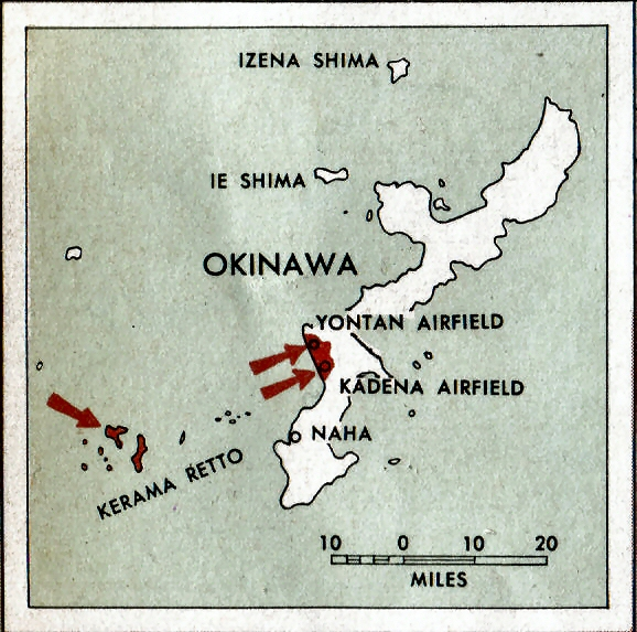 Map of Battle of Okinawa as of 1 Apr 1945: This map is taken from the source "Atlas of the World Battle Fronts in Semimonthly Phases to August 15th 1945: Supplement to The Biennial report of The Chief of Staff of the United States Army July 1, 1943 to June 30 1945 To the Secretary of War". (See Cover, Forward and Map details)